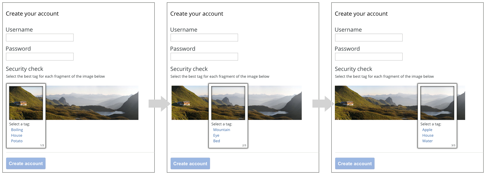 Mockup for a captcha based on tagging parts of a panorama picture that does not require text input.